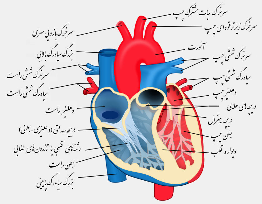 Heart diagram with labels in Persian language (Farsi). Blue components indicate de-oxygenated blood pathways and red components indicate oxygenated blood pathways.[1][2]